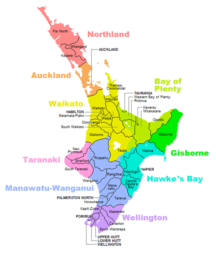 New Zealand Teritorial Authorities North Island (crop)